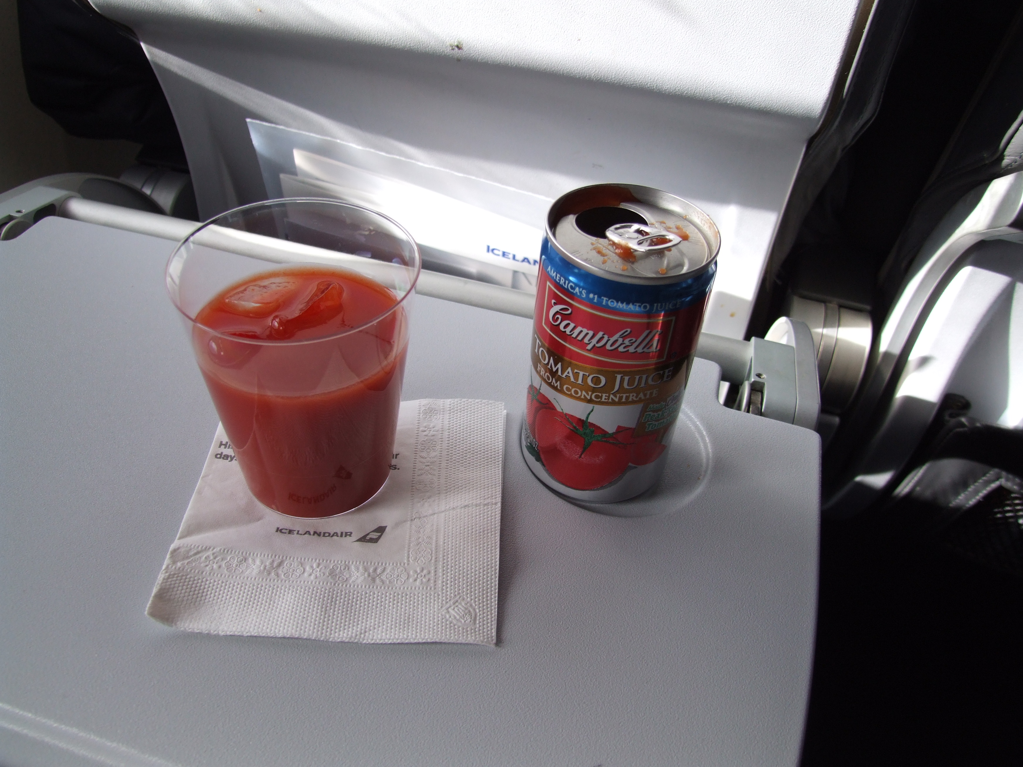 Campbell's tomato juice on a flight of Icelandair